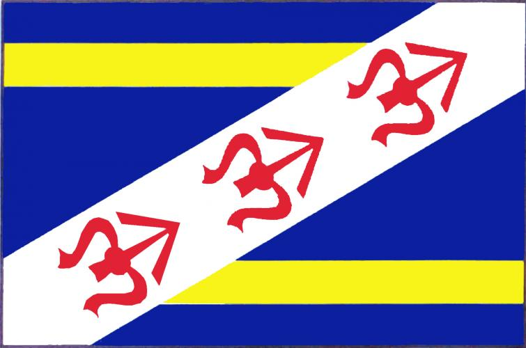 Flag of Střížovice, Kroměříž District, Czech Republic.